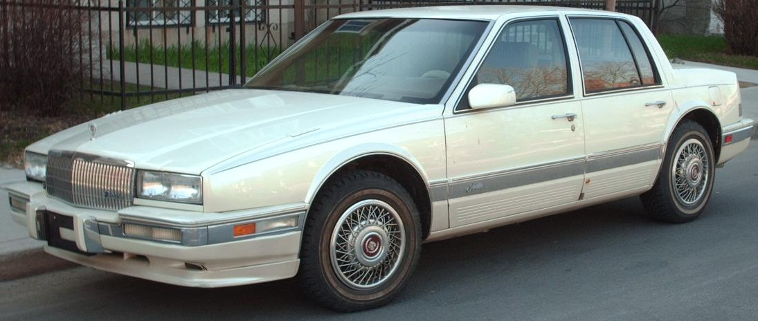 1988 Cadillac Seville photographed in Montreal, Quebec, Canada.